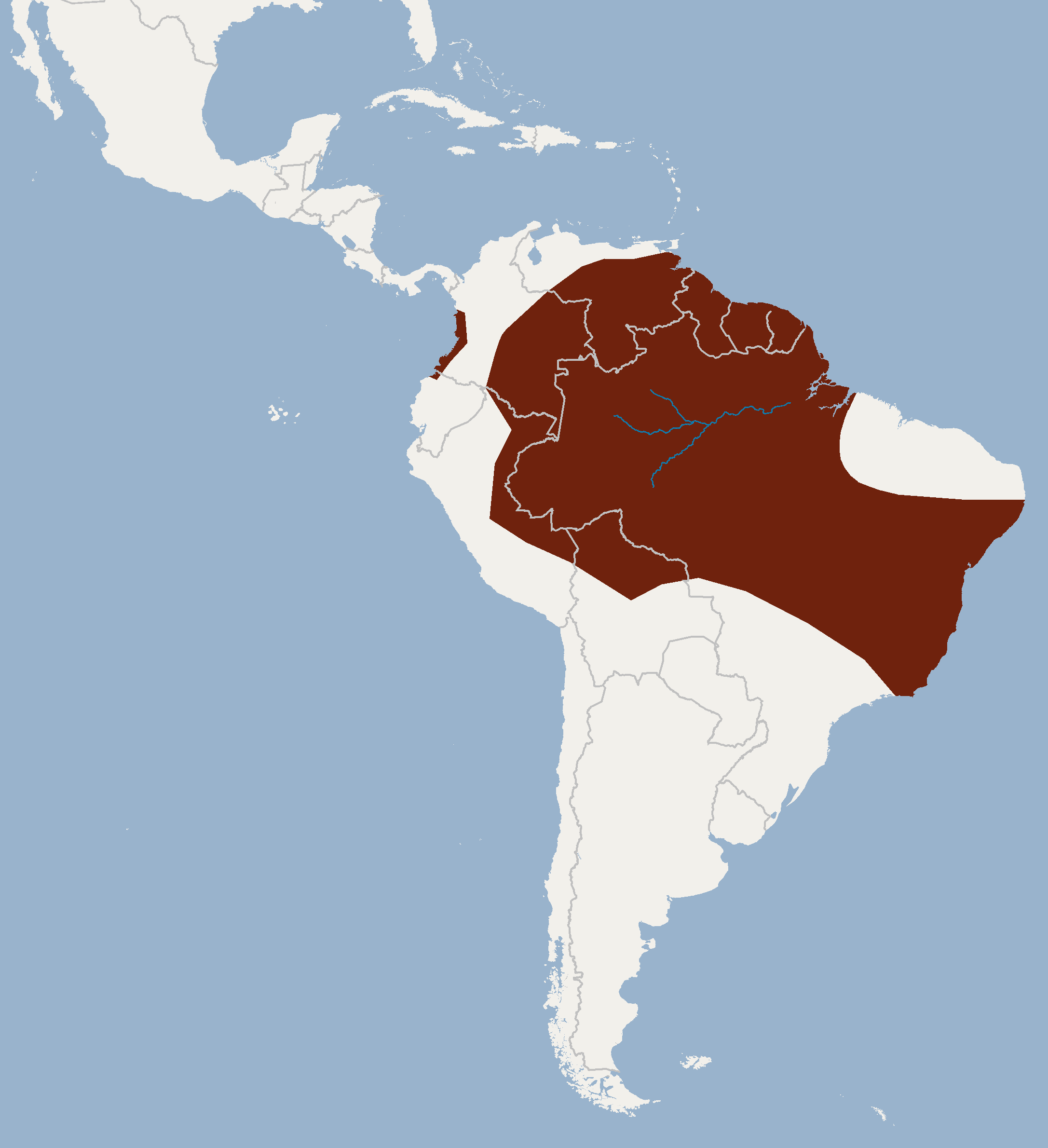 Geographical distribution of Phyllostomus elongatus according to Gardner AL, 2008